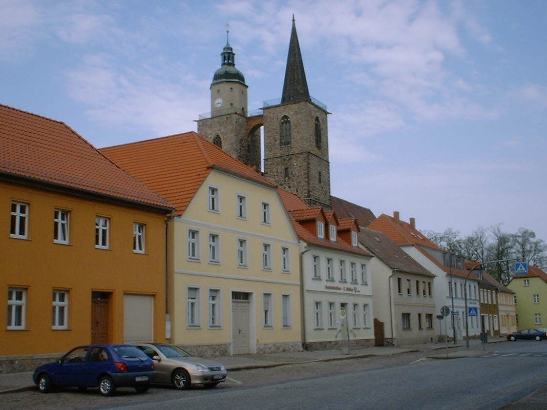 St Nicholas' Church in Jüterbog in Brandenburg, Germany